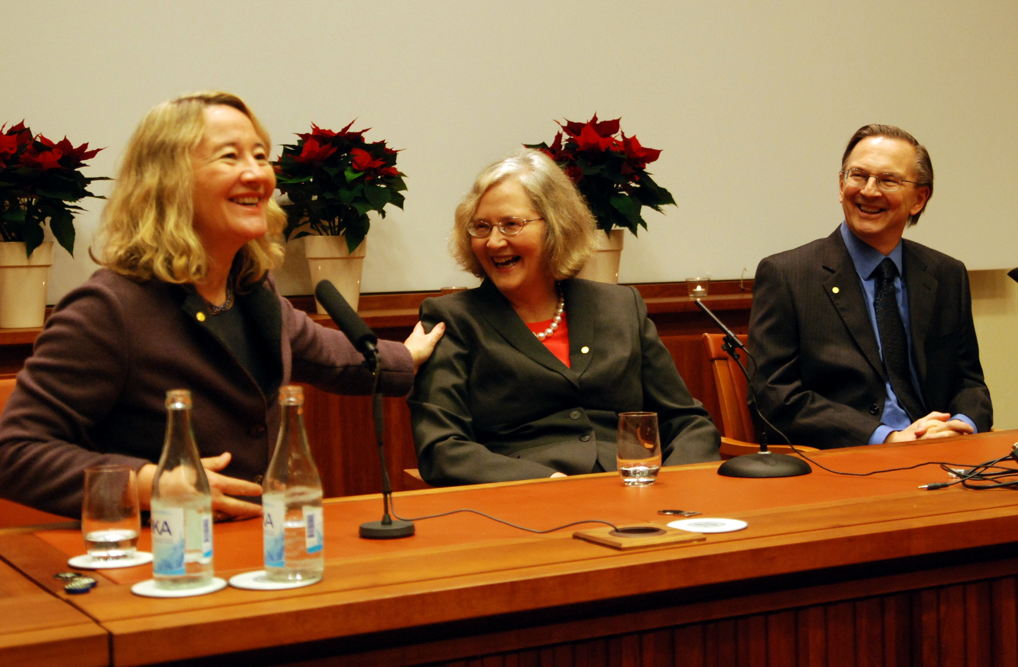 Nobel Prize in Physiology or Medicine 2009, press conference with the laureates: Carol W. Greider, Elizabeth Blackburn, and Jack W. Szostak.